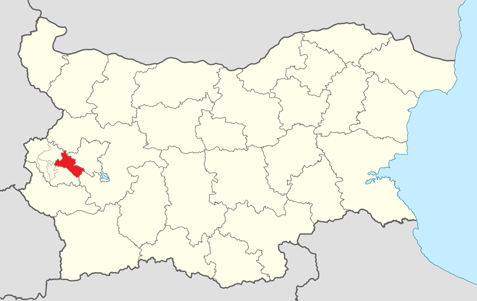 Location map of Pernik Municipality within Bulgaria and Pernik province